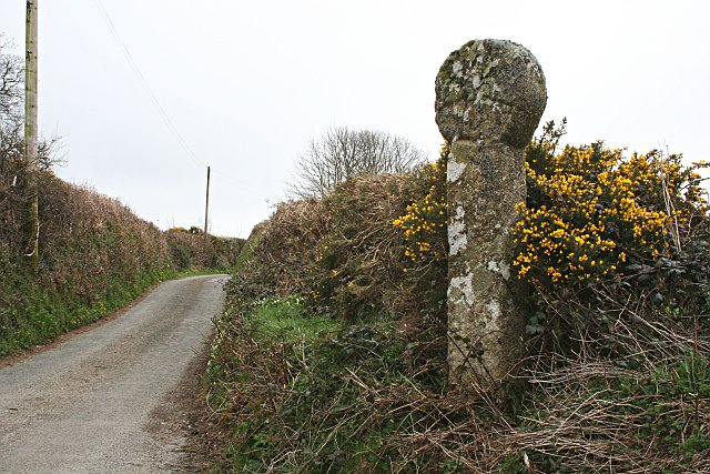 Celtic Cross by the Roadside At the entrance to Lesquite Farm.